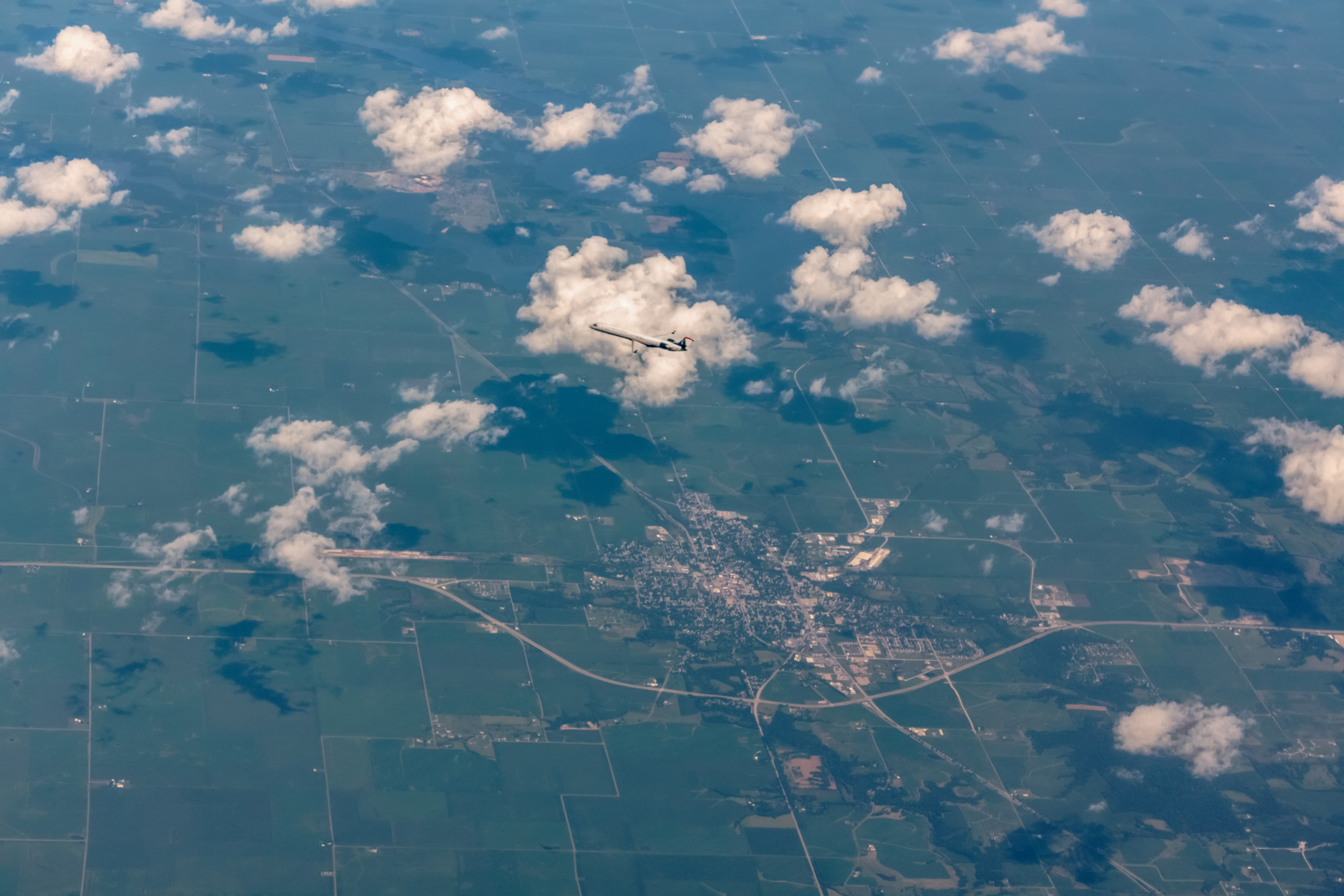 Clinton, Illinois - aerial view and airplane